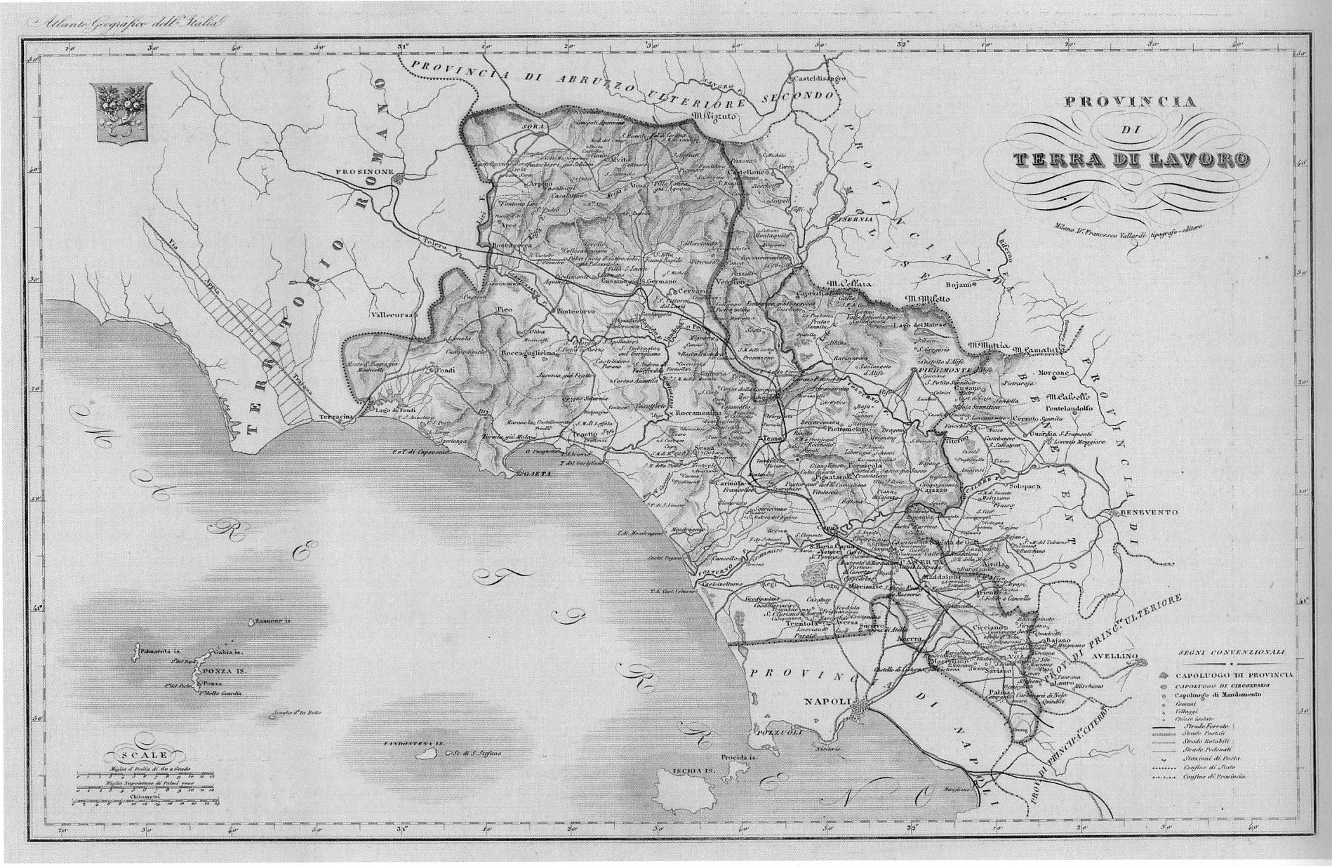 Attilio Zuccagni-Orlandini, "Provincia di Terra di Lavoro" from "Corografia fisica, storica e statistica d'Italia e delle sue isole", published in Milan in XIX century.